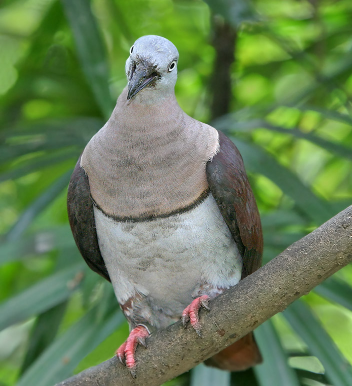 Banded Imperial-pigeon